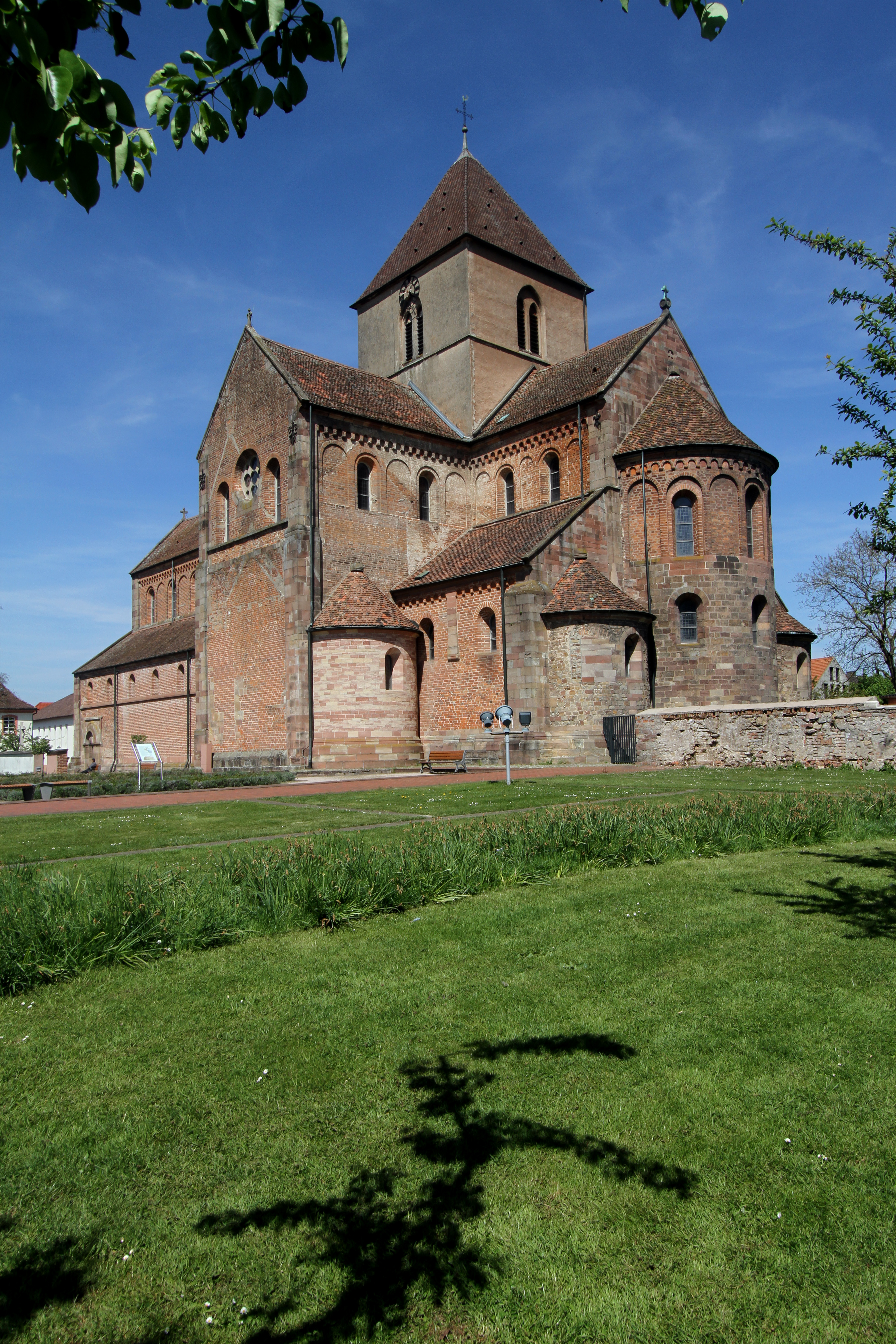 Münster in Rheinmünster-Schwarzach.